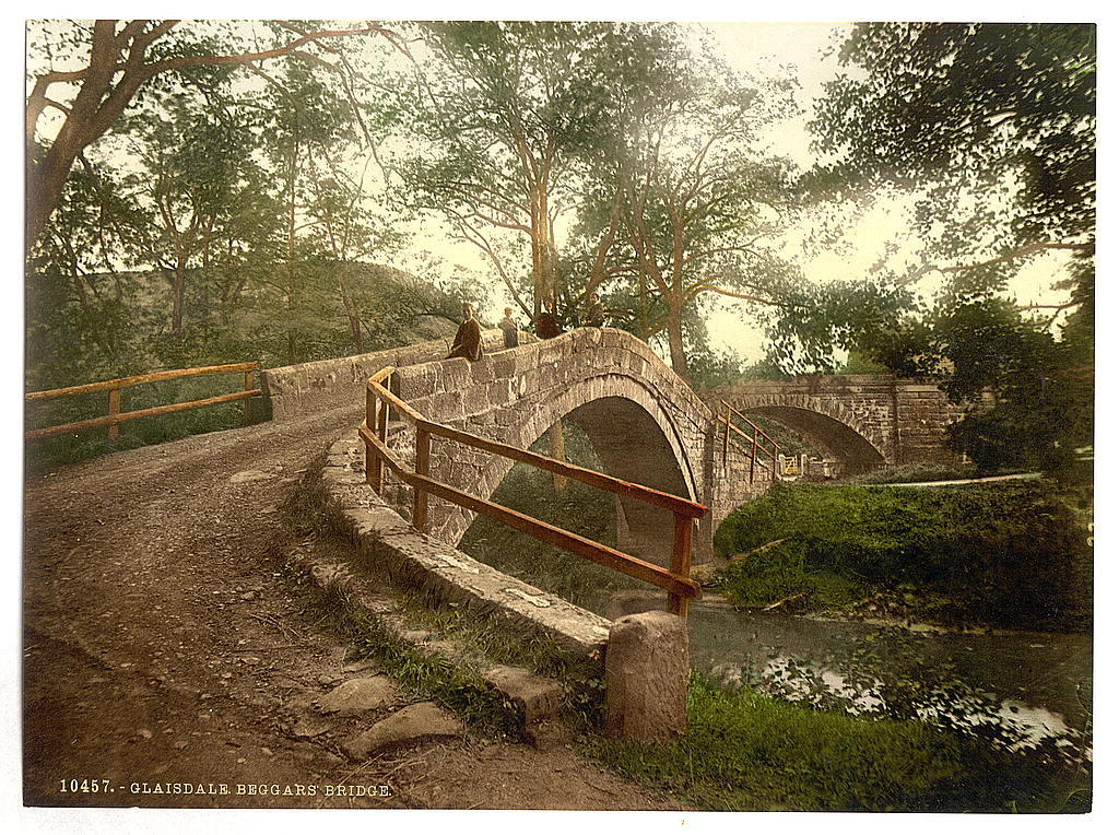 [Whitby, Glaisdale, Beggars' Bridge, Yorkshire, England] [between ca. 1890 and ca. 1900]. 1 photomechanical print : photochrom, color. Notes: Title from the Detroit Publishing Co., Catalogue J--foreign section, Detroit, Mich. : Detroit Publishing Company, 1905. Print no. "10457". Forms part of: Views of the British Isles, in the Photochrom print collection. Subjects: England--Whitby. Format: Photochrom prints--Color--1890-1900. Repository: Library of Congress, Prints and Photographs Division, Washington, D.C. 20540 USA, Part Of: Views of the British Isles (DLC) 2002696059 More information about the Photochrom Print Collection is available at Higher resolution image is available (Persistent URL): Call Number: LOT 13415, no. 1102 [item]